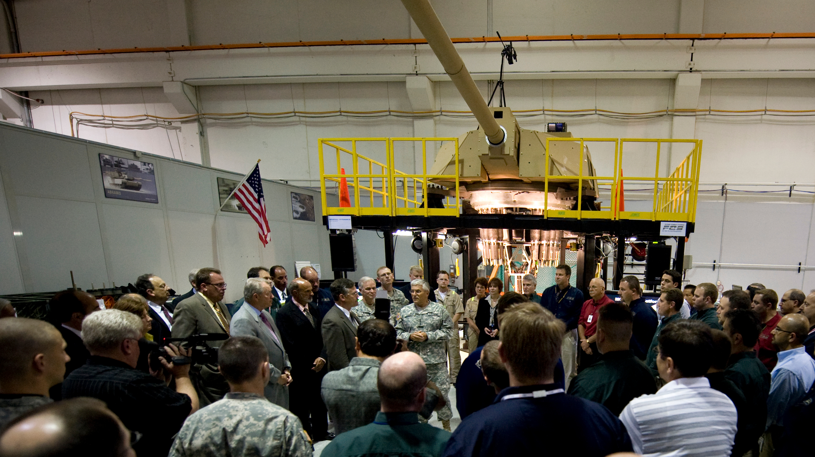 A XM1202 Mounted Combat System turret. Chief of Staff Army Gen. George W. Casey Jr. speaks with members of the press about Future Combat Systems during an overview of the General Dynamics facility in Warren, Mich., June 17, 2008. Casey was shown the various combat systems being tested and developed for the Army at General Dynamics.